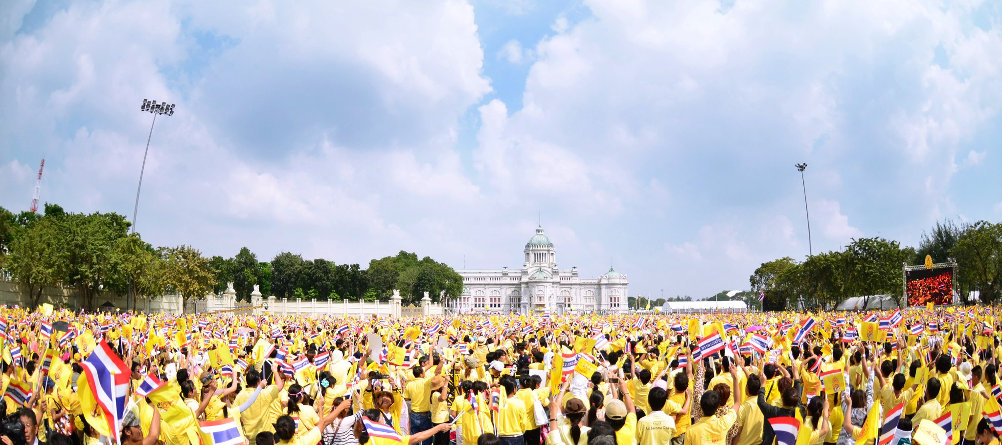 H.M. KING BHUMIBOL ADULYADEJ GRANTED A GRAND PUBLIC AUDIENCE, THAI PEOPLE GATHERED TO OBSERVE HIS ROYAL GRACE